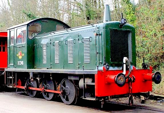 BR class 04 locomotive D2246 on shed at Buckfastleigh.